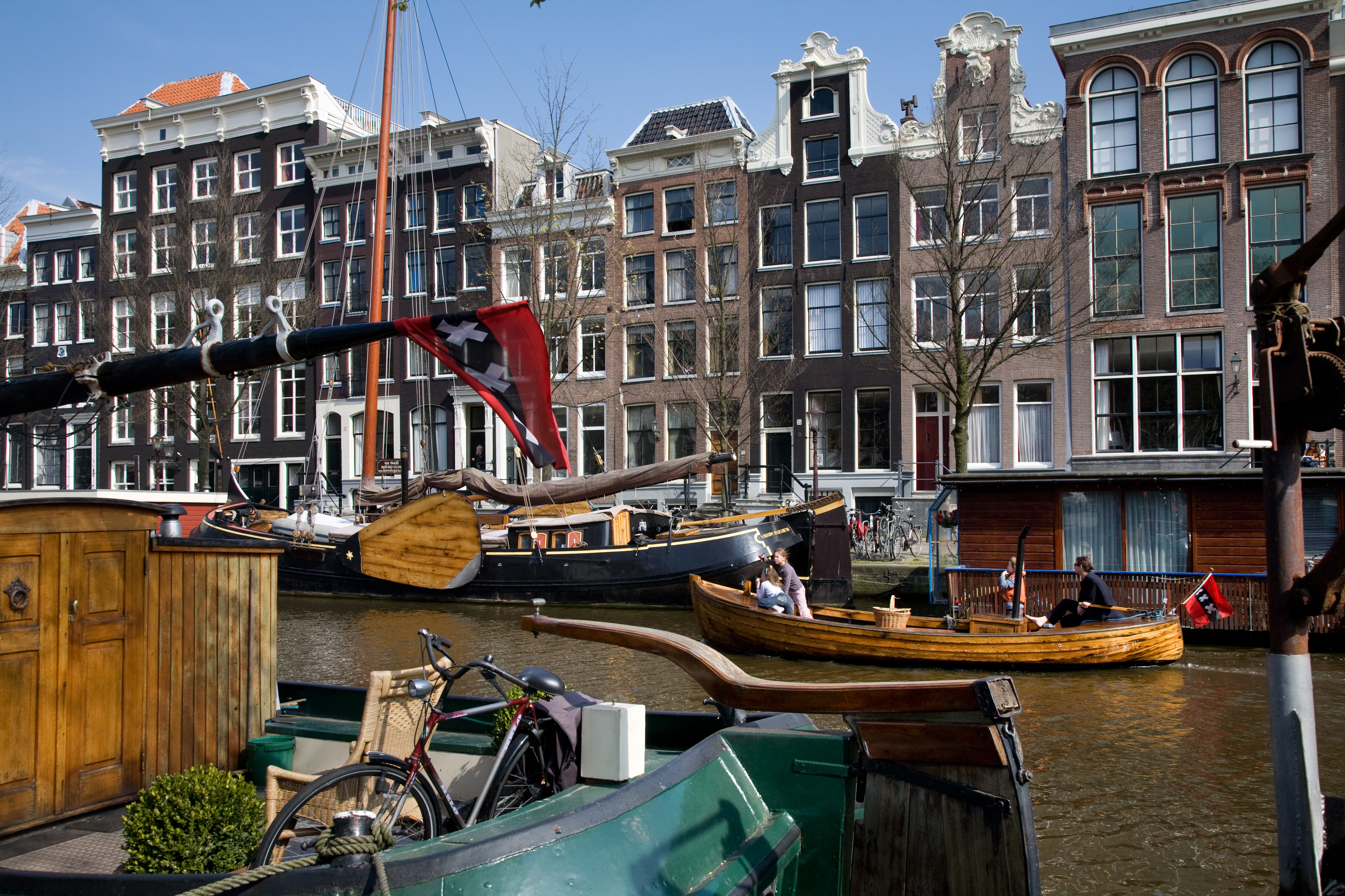 Prinsengracht, Amsterdam, The Netherlands This is an image of rijksmonument number 4248 This is an image of rijksmonument number 4249 This is an image of rijksmonument number 4250 This is an image of rijksmonument number 4251